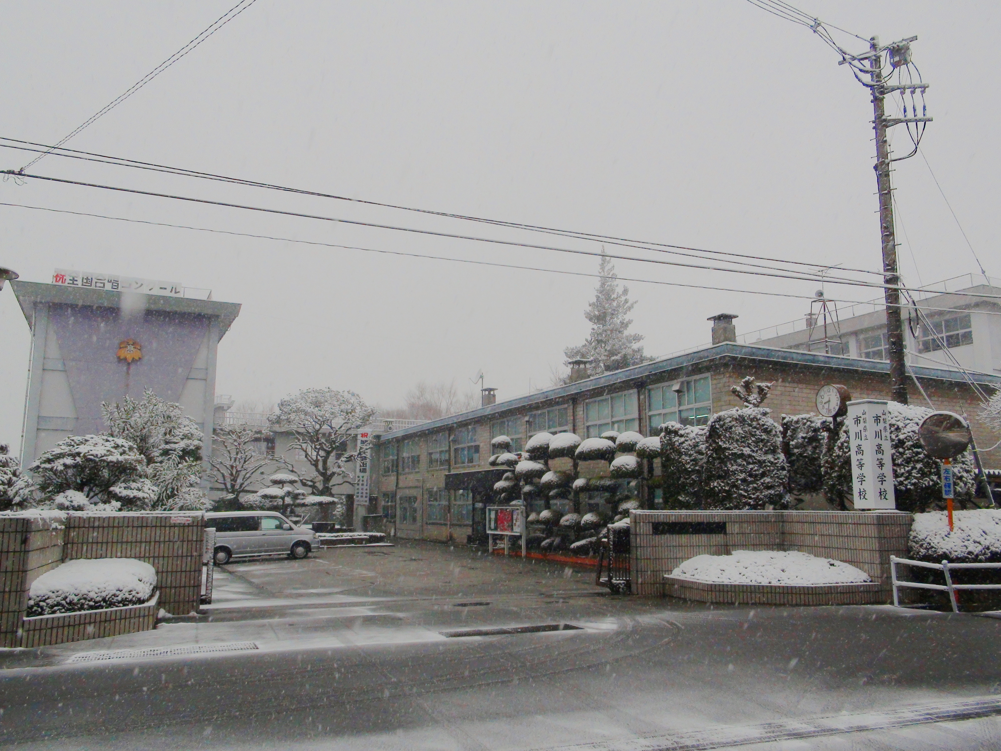 Yamanashi prefectural Ichikawa High School